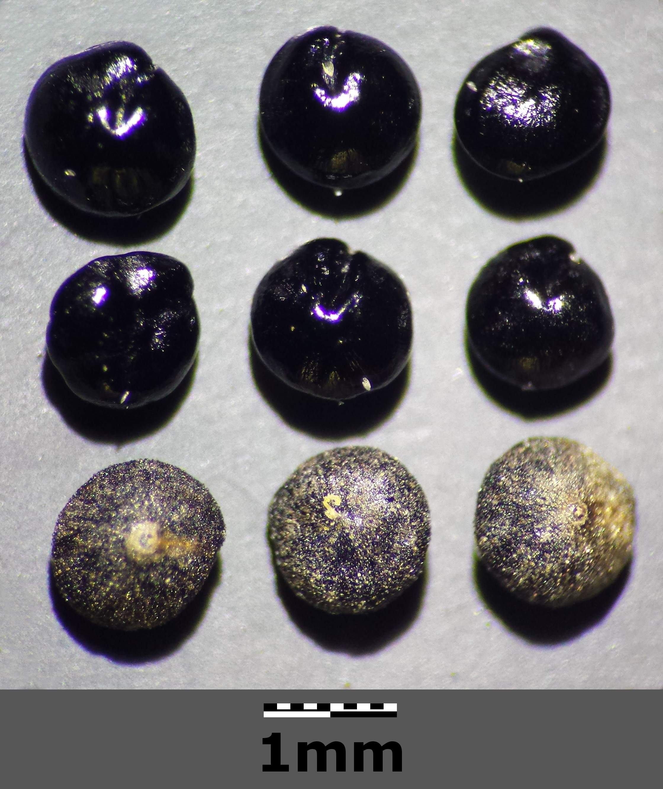 Seeds Taxonym: Chenopodium album subsp. album ss Fischer et al. EfÖLS 2008 ISBN 978-3-85474-187-9 Location: Groß-Jedlersdorf, Vienna-Floridsdorf - ca. 160 m a.s.l. Habitat: sandheap